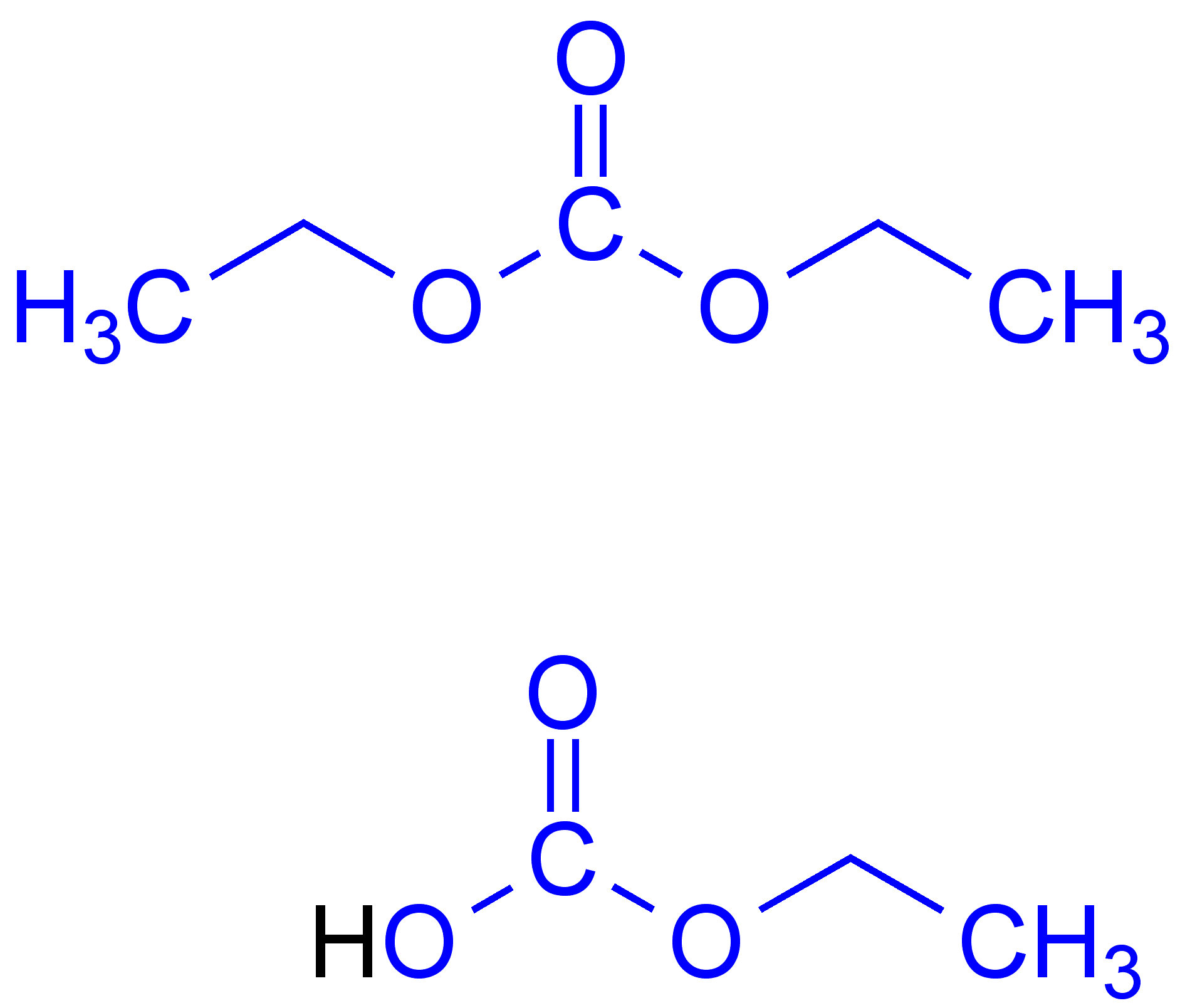 Ethylcarbonate